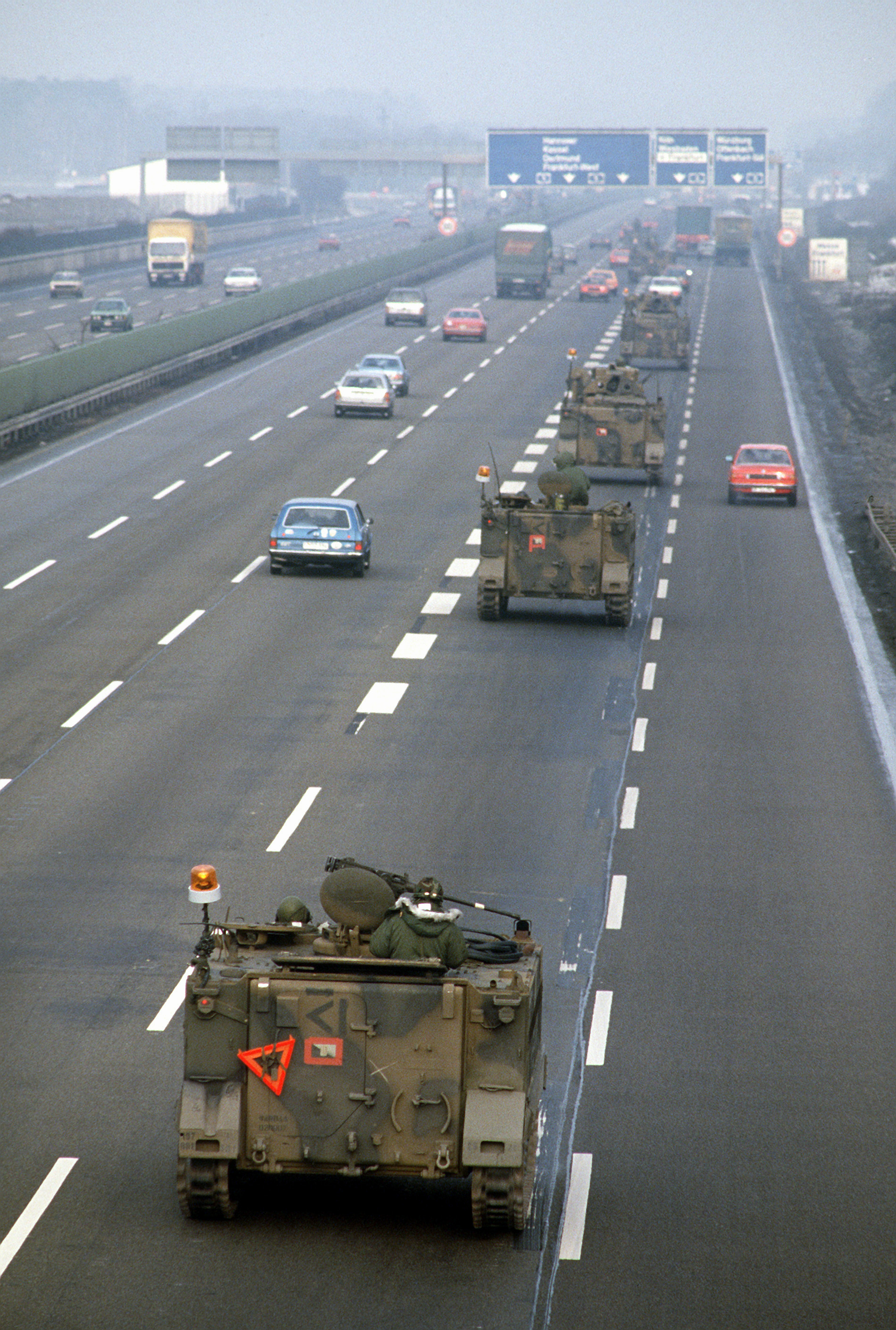 A convoy of M113 armored personnel carriers travel on a highway near Frankfurt during Central Guardian, a phase of Exercise REFORGER '85.